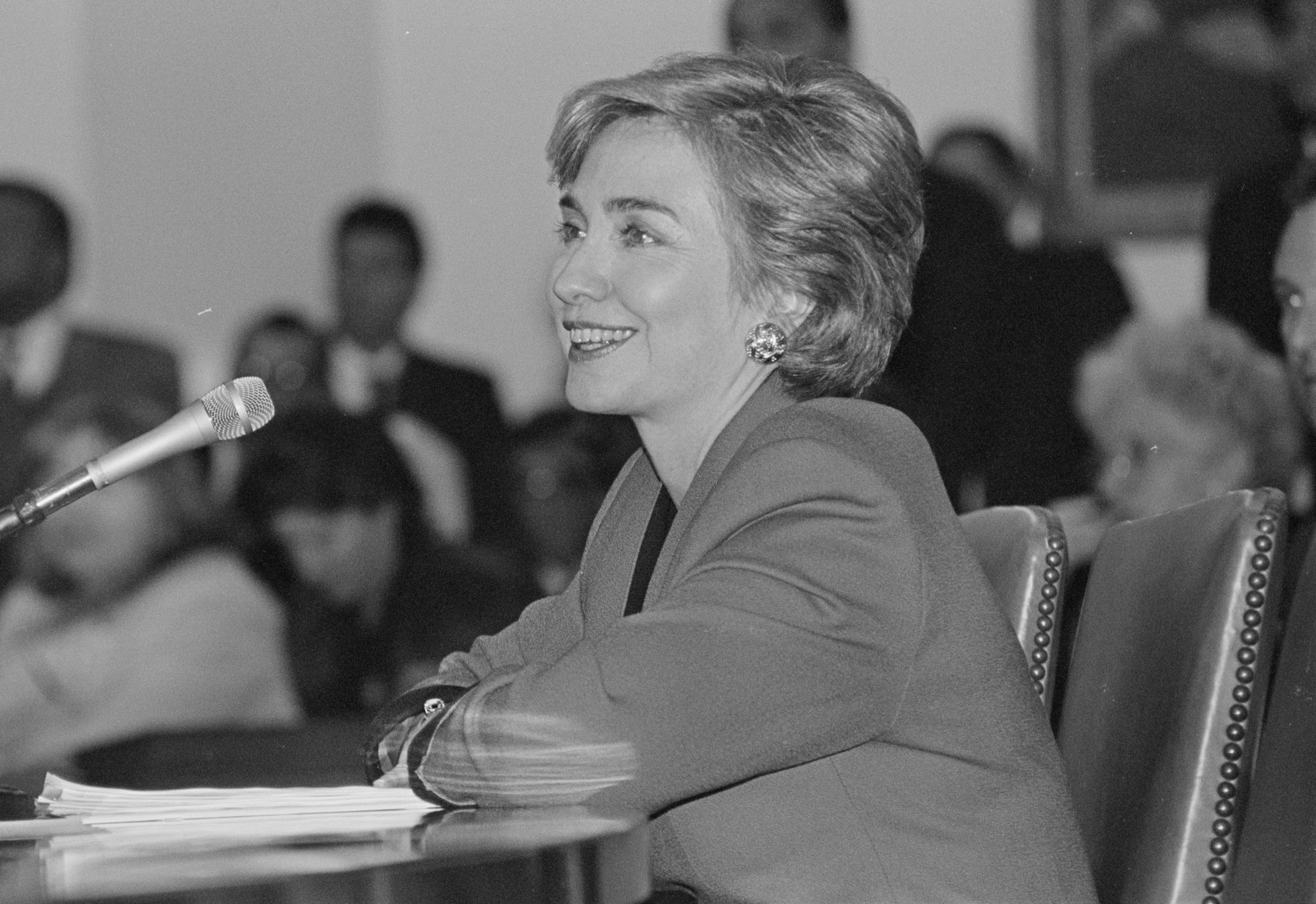 First Lady Hillary Clinton, head-and-shoulders portrait, seated, facing left, during her presentation at a congressional hearing on health care reform